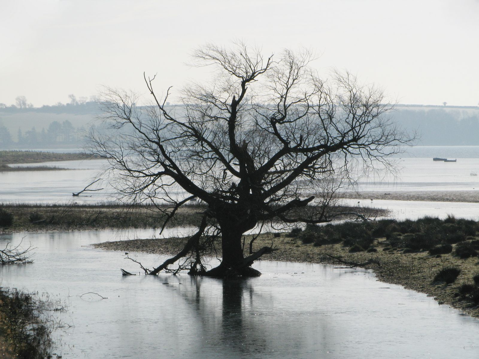 Eyebrook Reservoir, East Midlands, England. It straddles the border of Leicestershire (to the west) and Rutland (to the east). A very cold day with ice on the water.